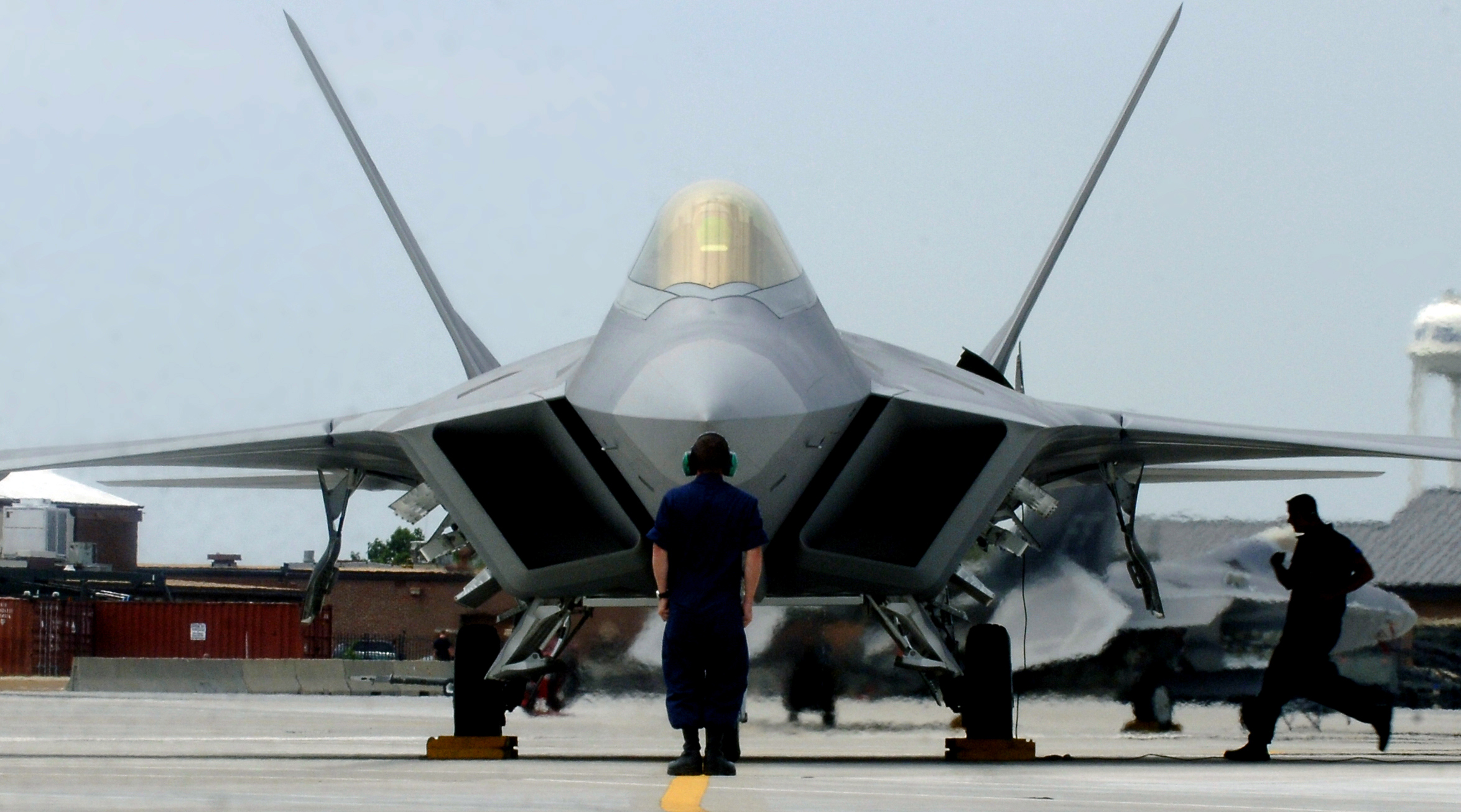 A F-22 Raptor sits on the tarmac while awaiting takeoff orders.